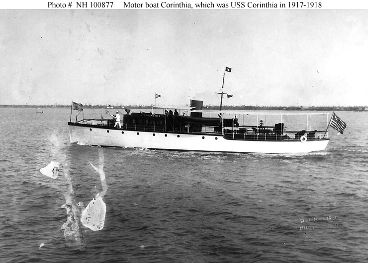 A damaged photograph of the private motorboat Corinthia sometime prior to her United States Navy service as the patrol vessel